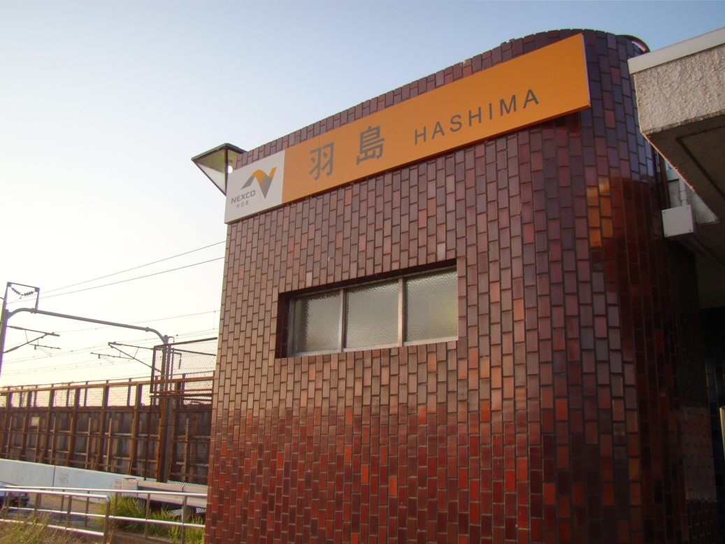 Hashima parking area Meishin expressway Gifu Japan